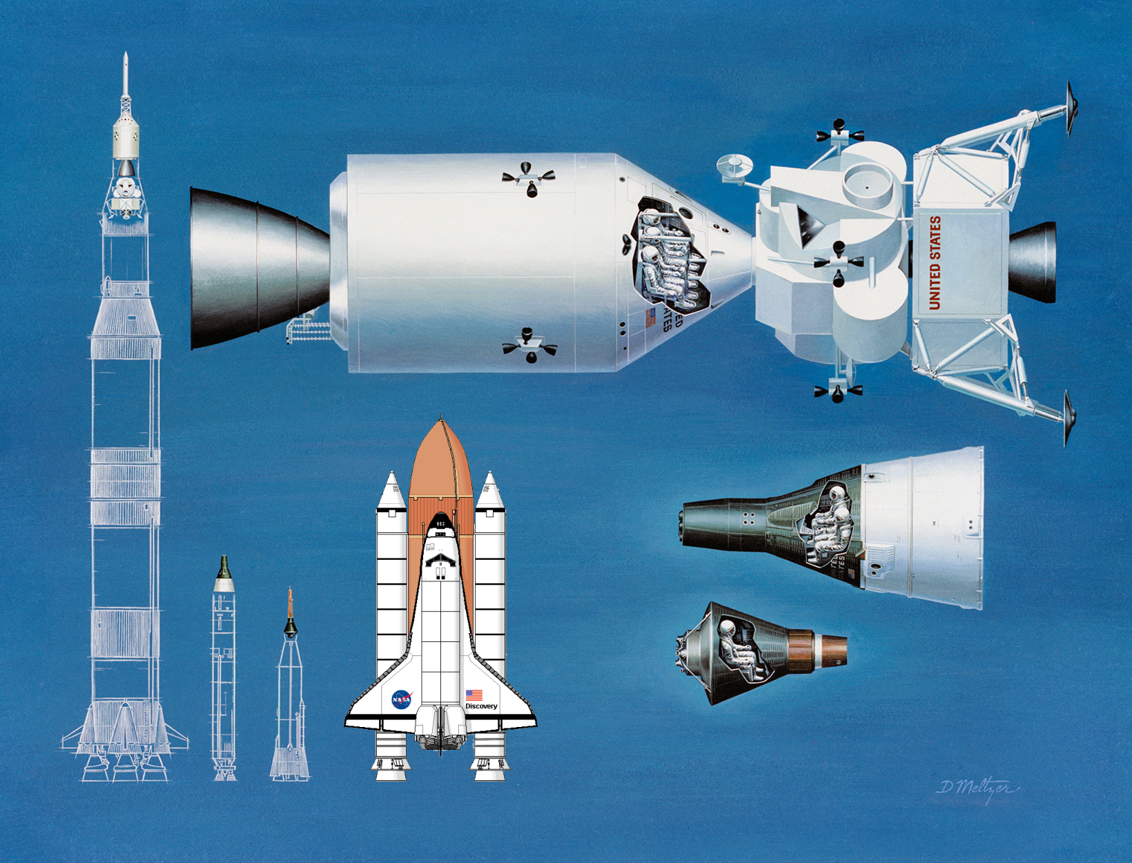 Illustration of the relative sizes of the Mercury, Gemini, and Apollo capsules, along with size comparisons of the Saturn V, Titan II, Atlas-D, and Space Shuttle launch vehicles.